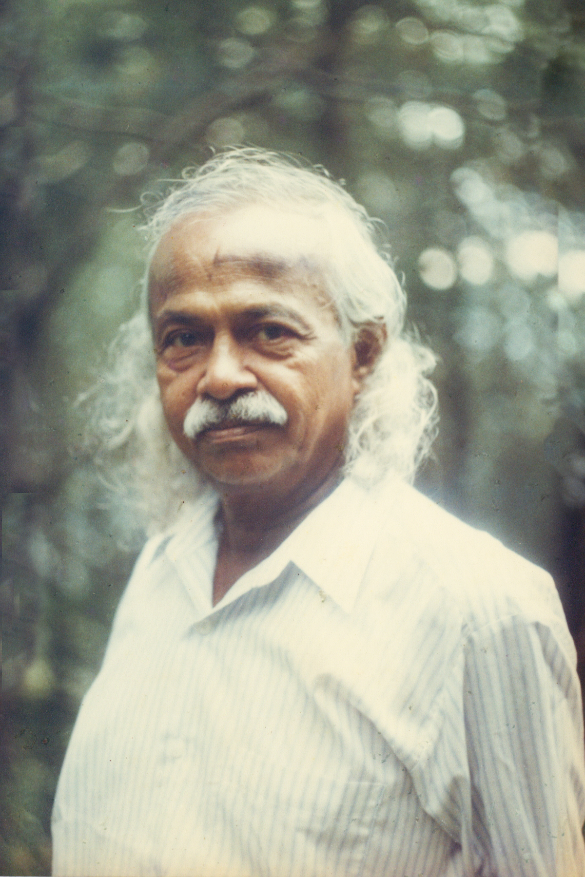 This is a portrait of Sugathapala de Silva